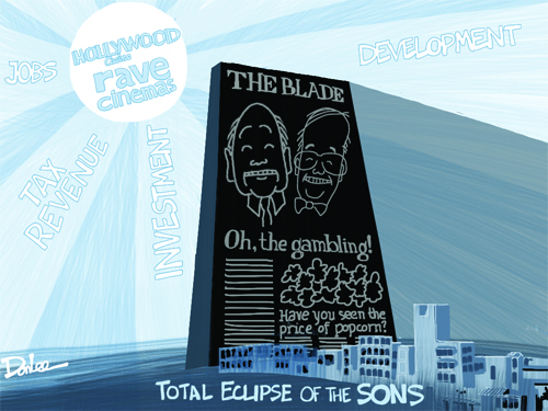 August 2011 Toledo Free Press editorial cartoon captioned "Total Eclipse of the Sons", depicting The Blade which prompted The Blade to sue the Free Press.